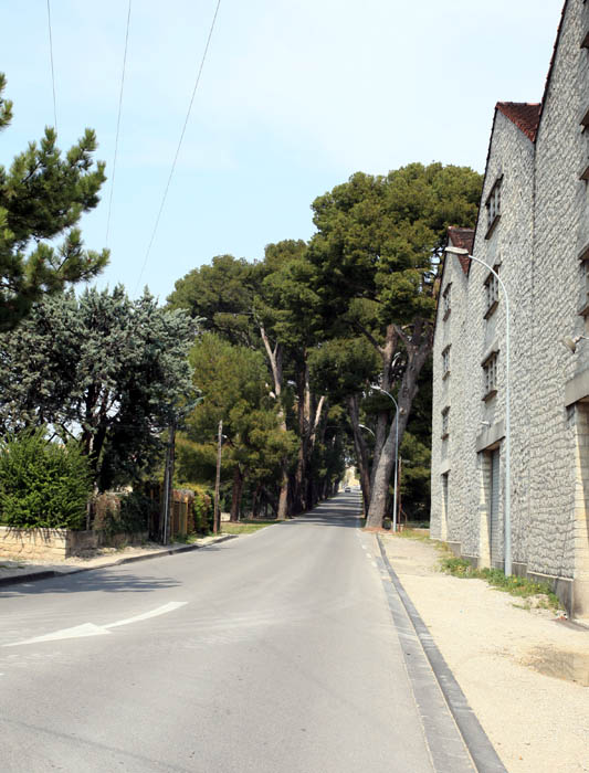 Village of Caromb, Vaucluse, France